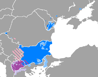 Eastern South Slavic languages